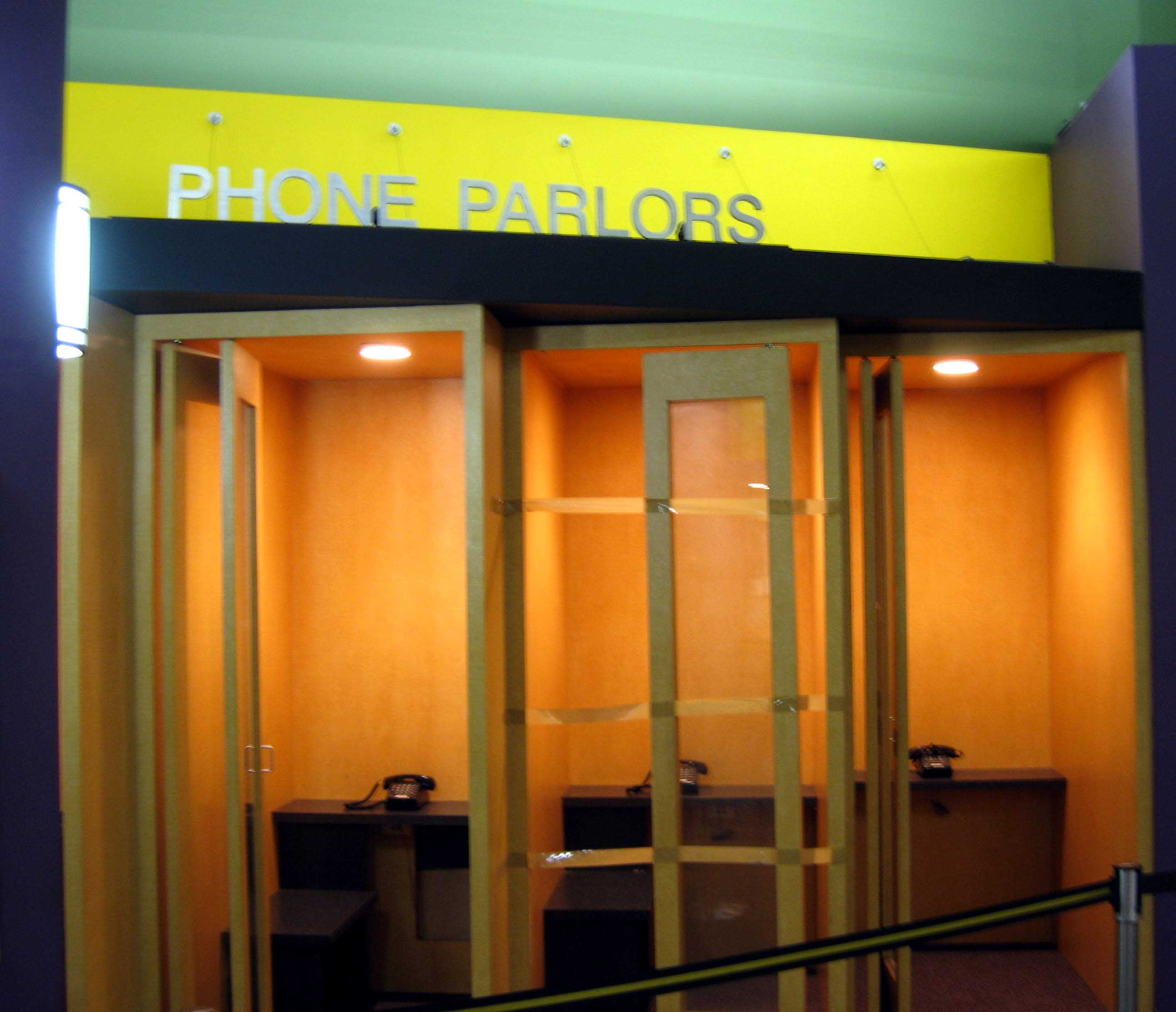 Phone parlors in Western Union office at 1440 Broadway and 40th Street, Manhattan